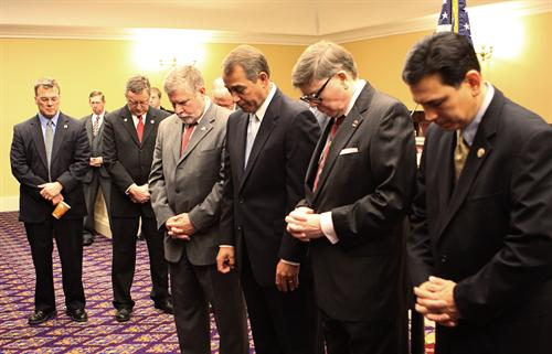 "Boehner Observes National Moment of Silence with Ohio Lawmakers: Ohio Senate President Tom Niehaus, U.S. House Speaker John Boehner, Ohio Speaker Bill Batchelder and other Ohio lawmakers observe the national moment of silence at 11 a.m. yesterday in the Ohio Statehouse."